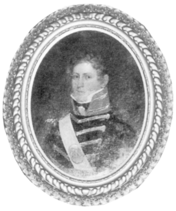 Portrait of Lieutenant Colonel Charles Rumsey Broom, United States Marine Corps. He was a native of Wilmington, Delaware, who served with great distinction during the War of 1812 and another 28 years thereafter. Broom was commissioned a Second Lieutenant of Marines on June 27, 1813 with a brevet commission the year before. He served on the USS North Carolina and at Headquarters, U. S. Marine Corps as well as Marine Barracks in Washington, New York, Philadelphia, and Norfolk. He died on November 14, 1840 and was buried in Congressional Cemetery in Washington. This image of an oval oil painting shows Broom as a First Lieutenant. It was painted between 1814 and 1821 by an unknown artist and was from the holdings of the United States Marine Corps.